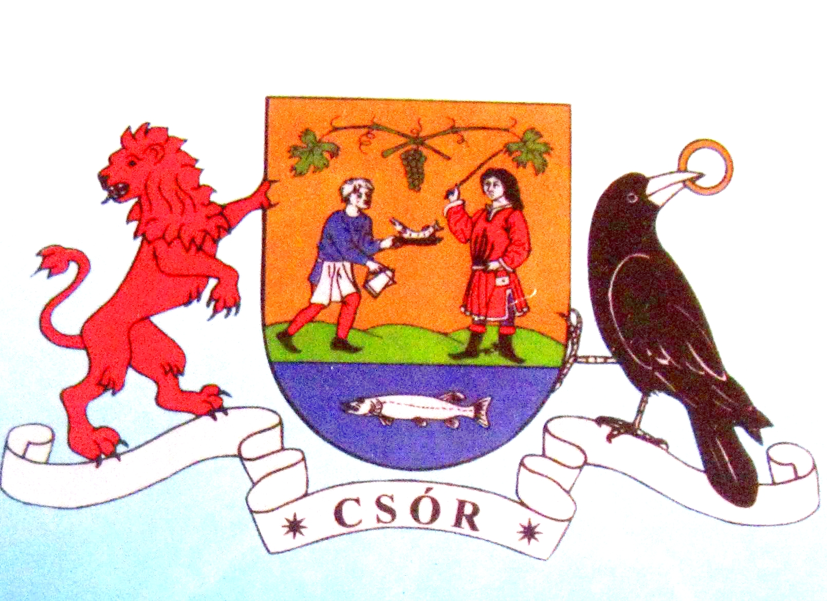 Coat of arms of Csór, Hungary